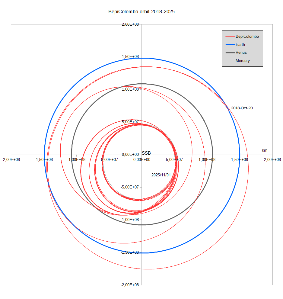 BepiColombo orbit 2018-2025